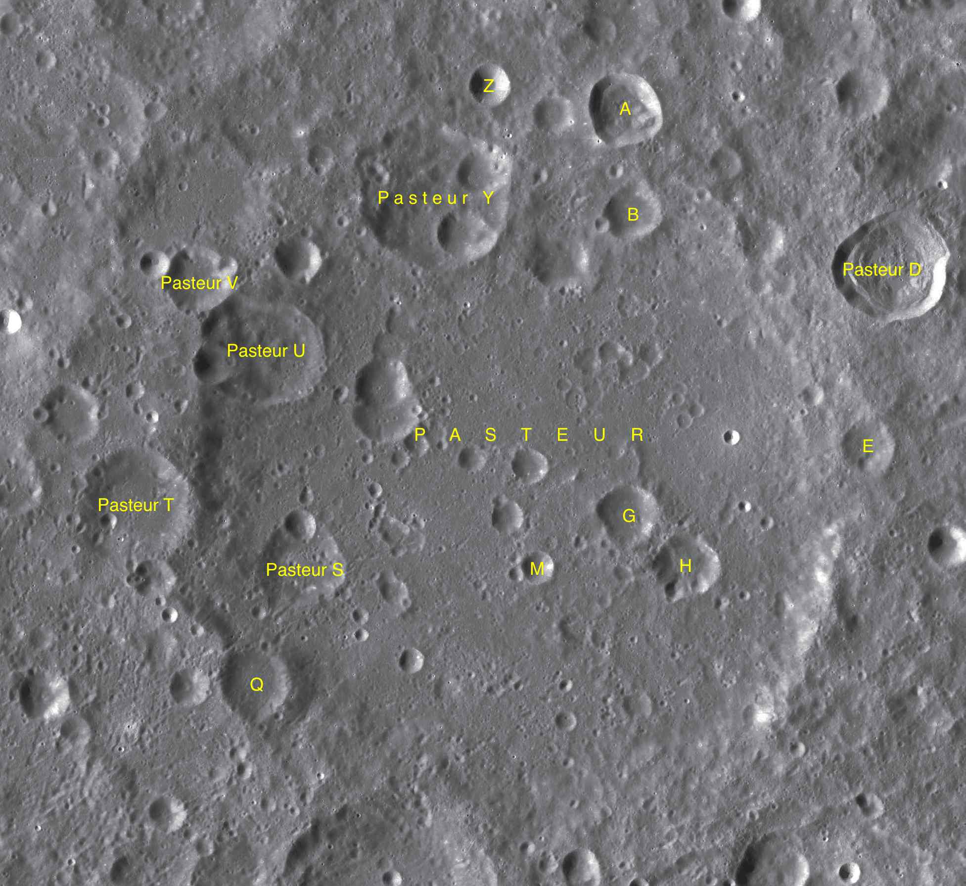 Part of the chart LAC-82 used for the presentation